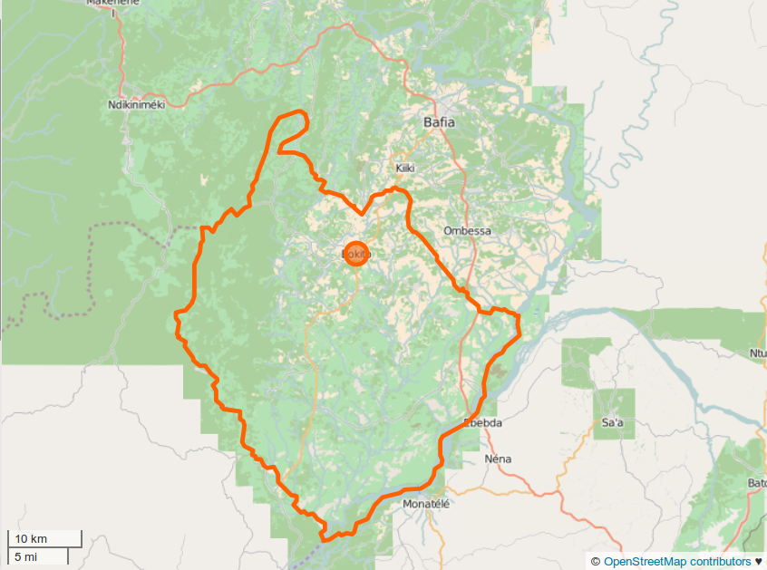 Boundaries of Bokito, Cameroon, OSM. This map may be incomplete, and may contain errors. Don't rely solely on it for navigation.